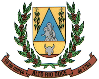 Coat of arms of the city of Alto Rio Doce, Minas Gerais, Brazil.